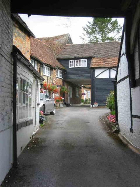 Courtyard houses in Amersham {Old Town} This would be a very pleasant place to live